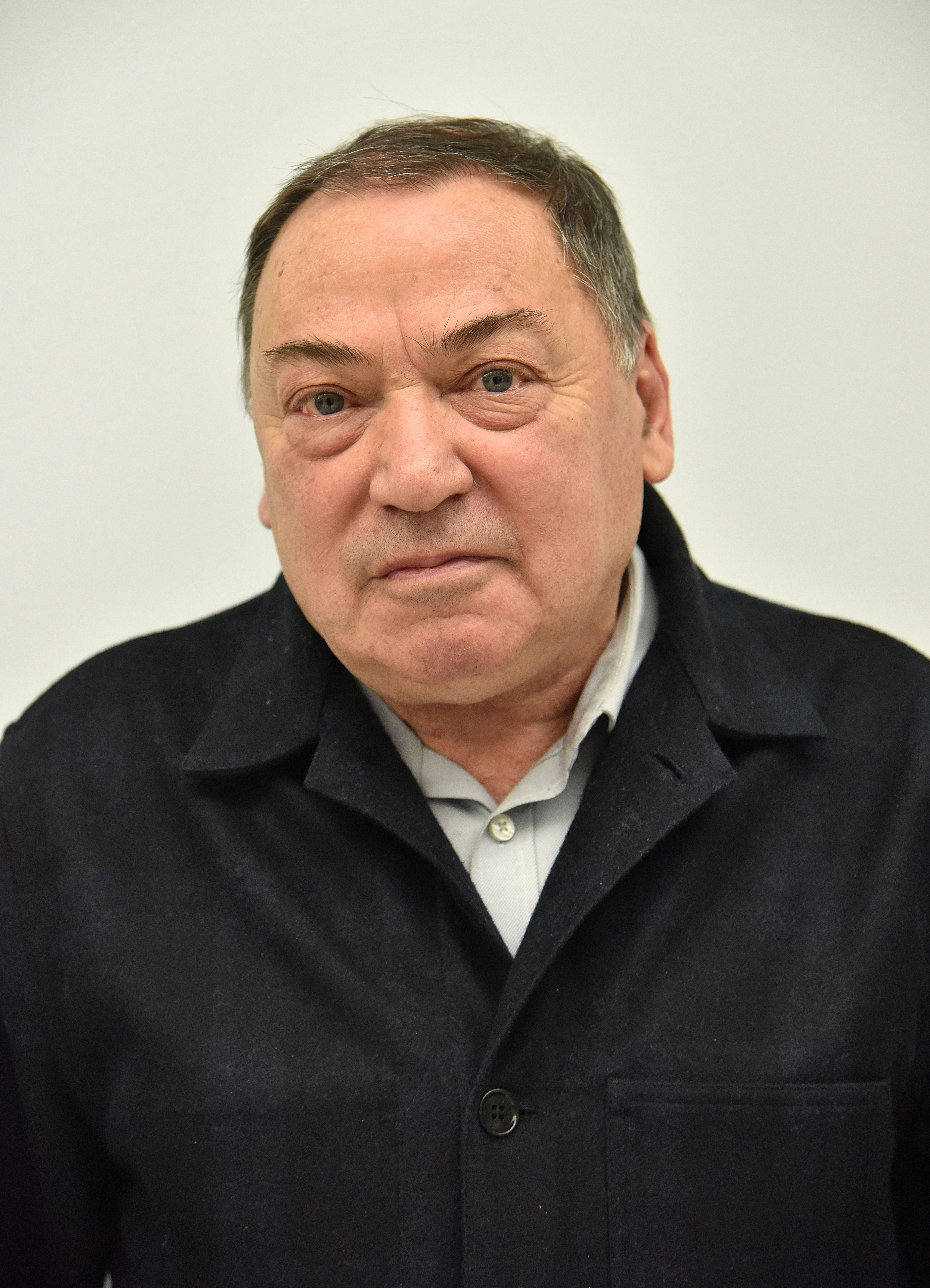 Seweryn Blumsztajn in the Sejm